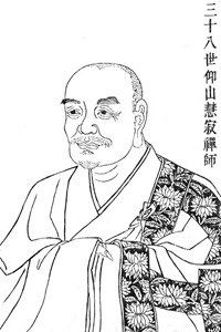 Portrait of chan master Yangshan Huiji